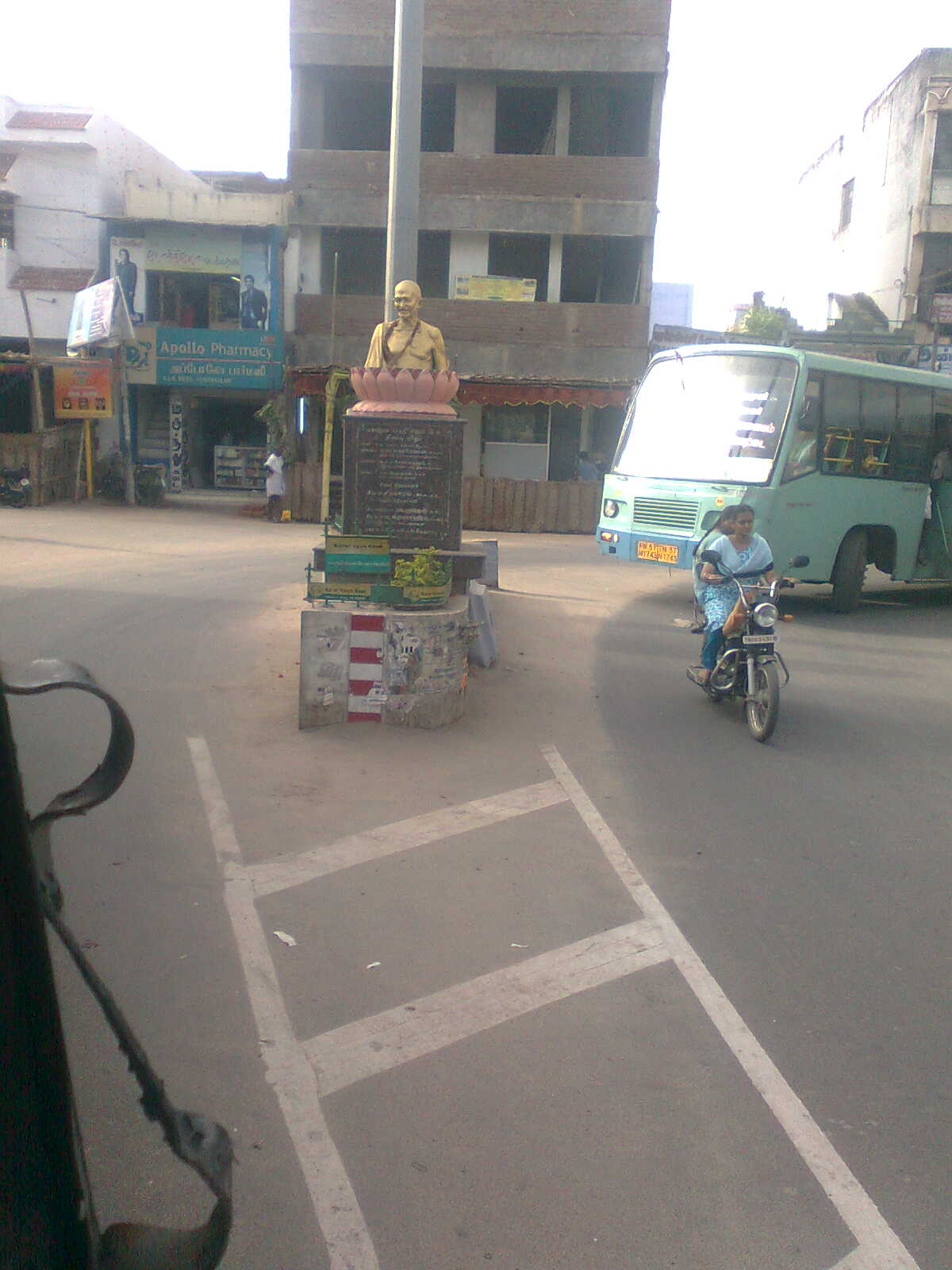 A busy Road junction in Periyakulam , Tamilnadu